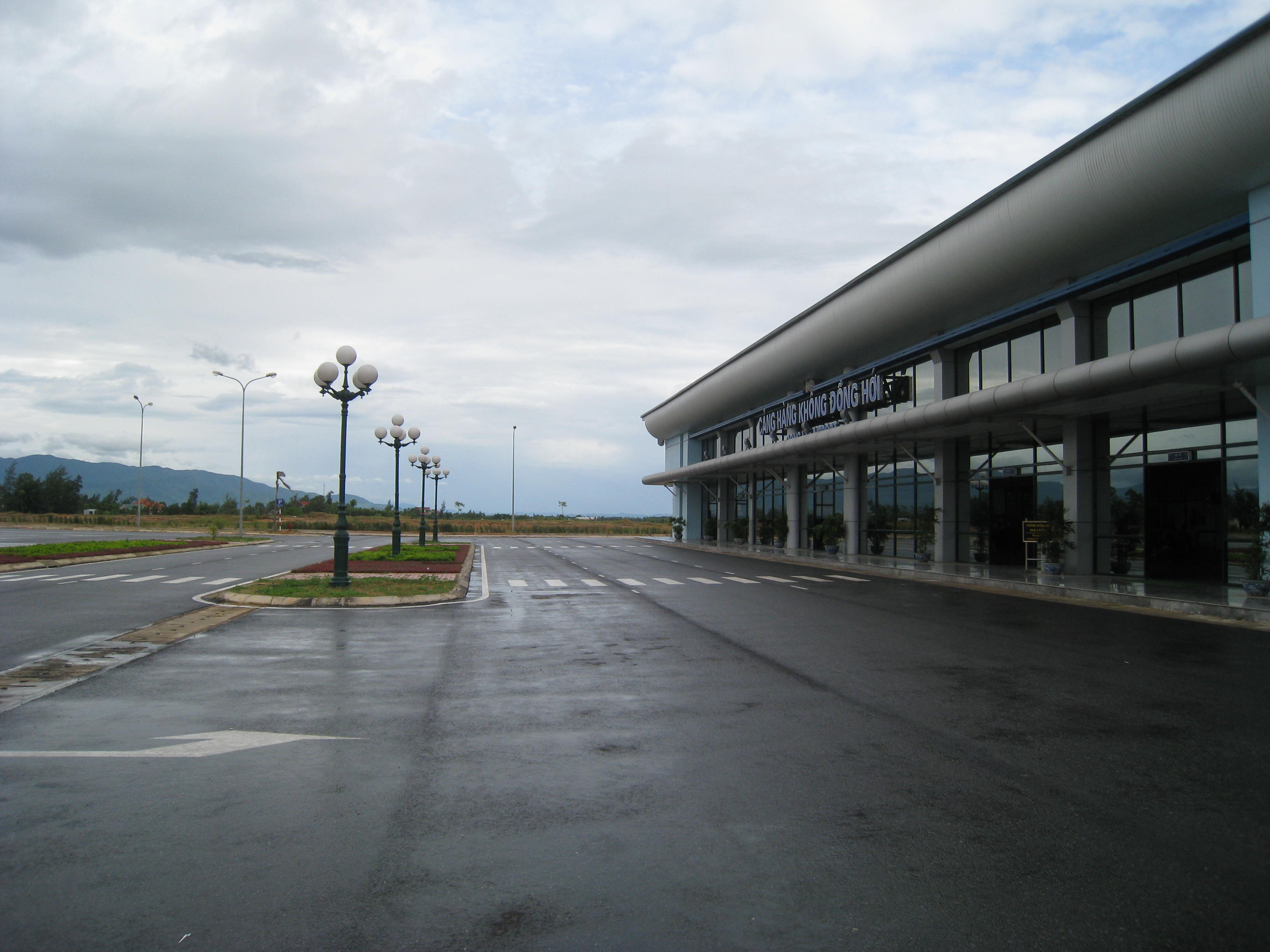 Dong Hoi Airport, Vietnam